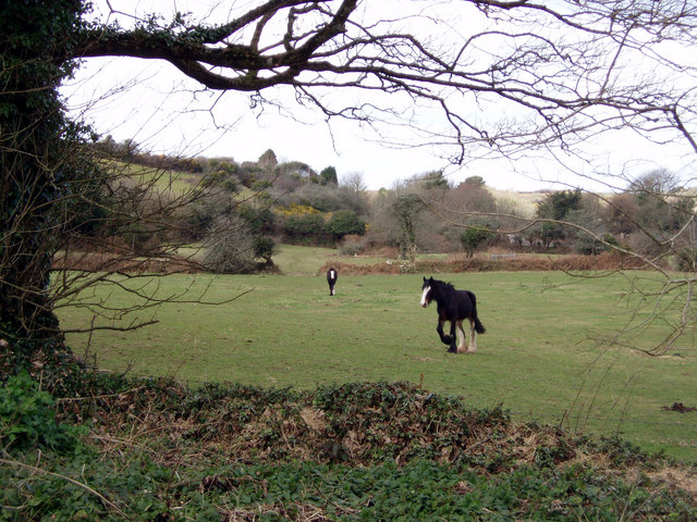 Horses in field near Nancledra. This little valley which leads south east from Nancledra is well sheltered.